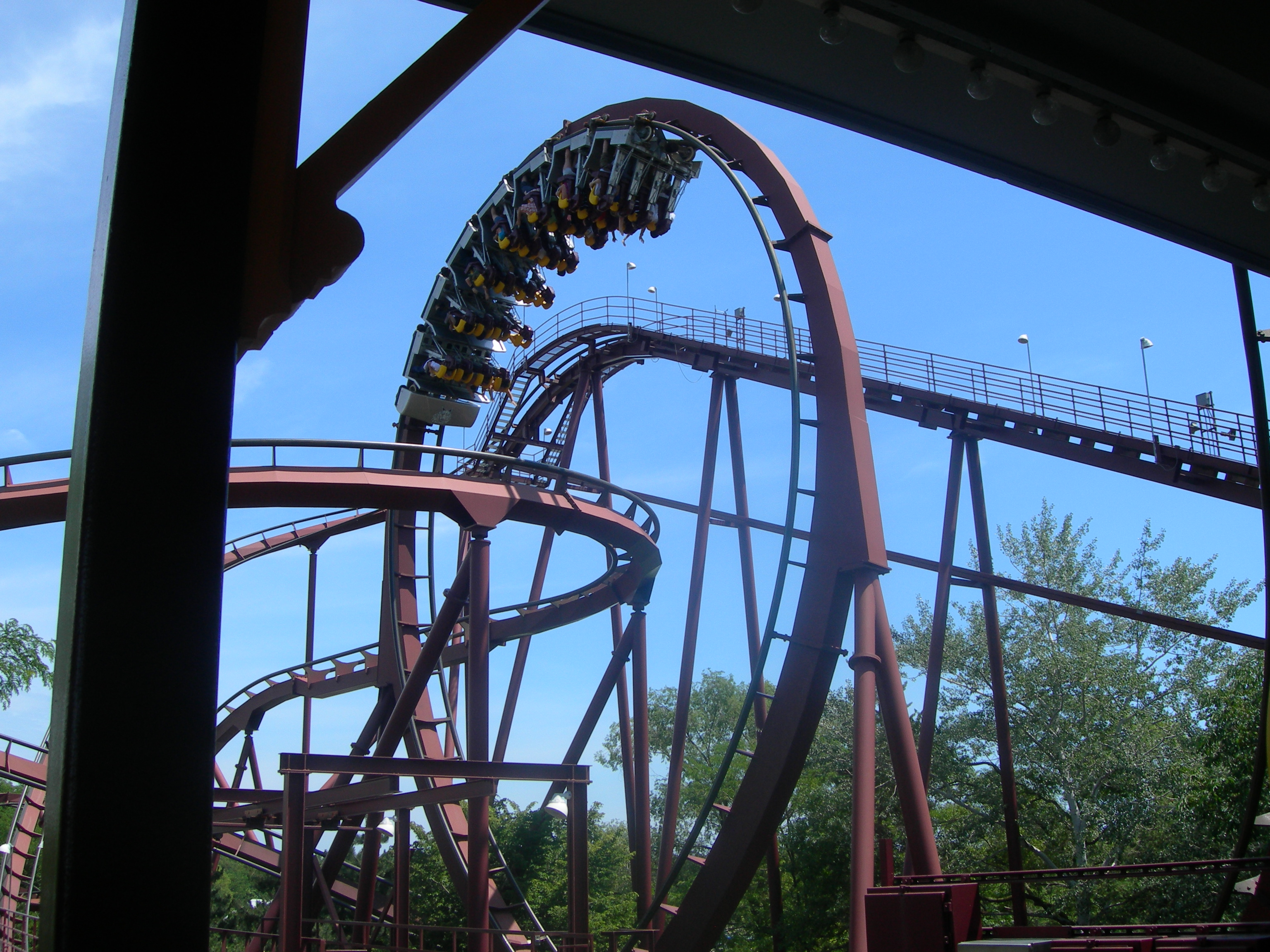 Iron Wolf , montagnes russes à Six Flags Great America